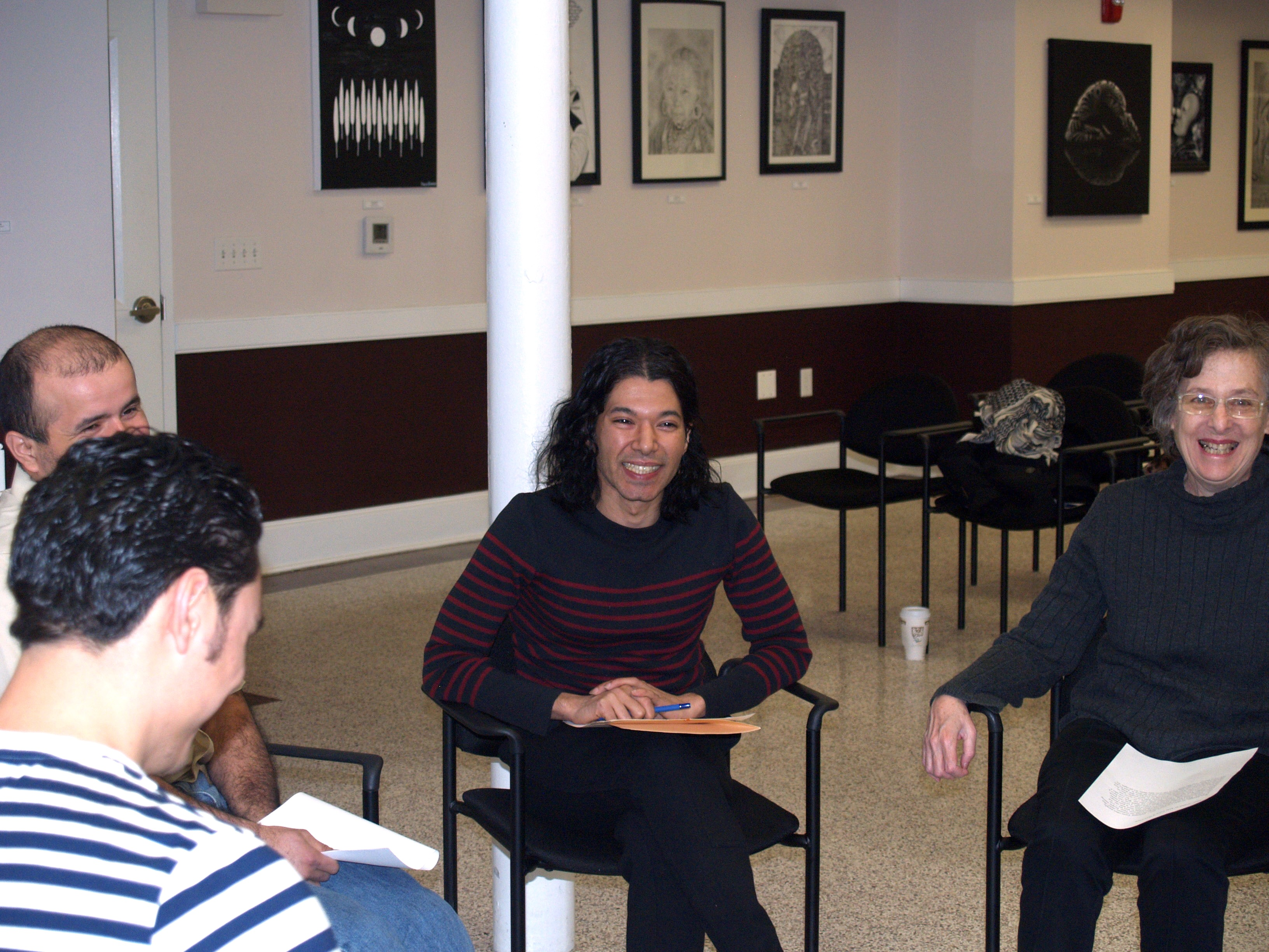 Actor, singer and writer Renoly Santiago (in the red-and-black striped shirt) at the William V. Musto Cultural Center in Union City, New Jersey, where Santiago spent part of his childhood, on March 6, 2014, the first night of a ten-week adult acting course taught by Santiago. This photo was created by Luigi Novi. It is not in the public domain, and use of this file outside of the licensing terms is a copyright violation.